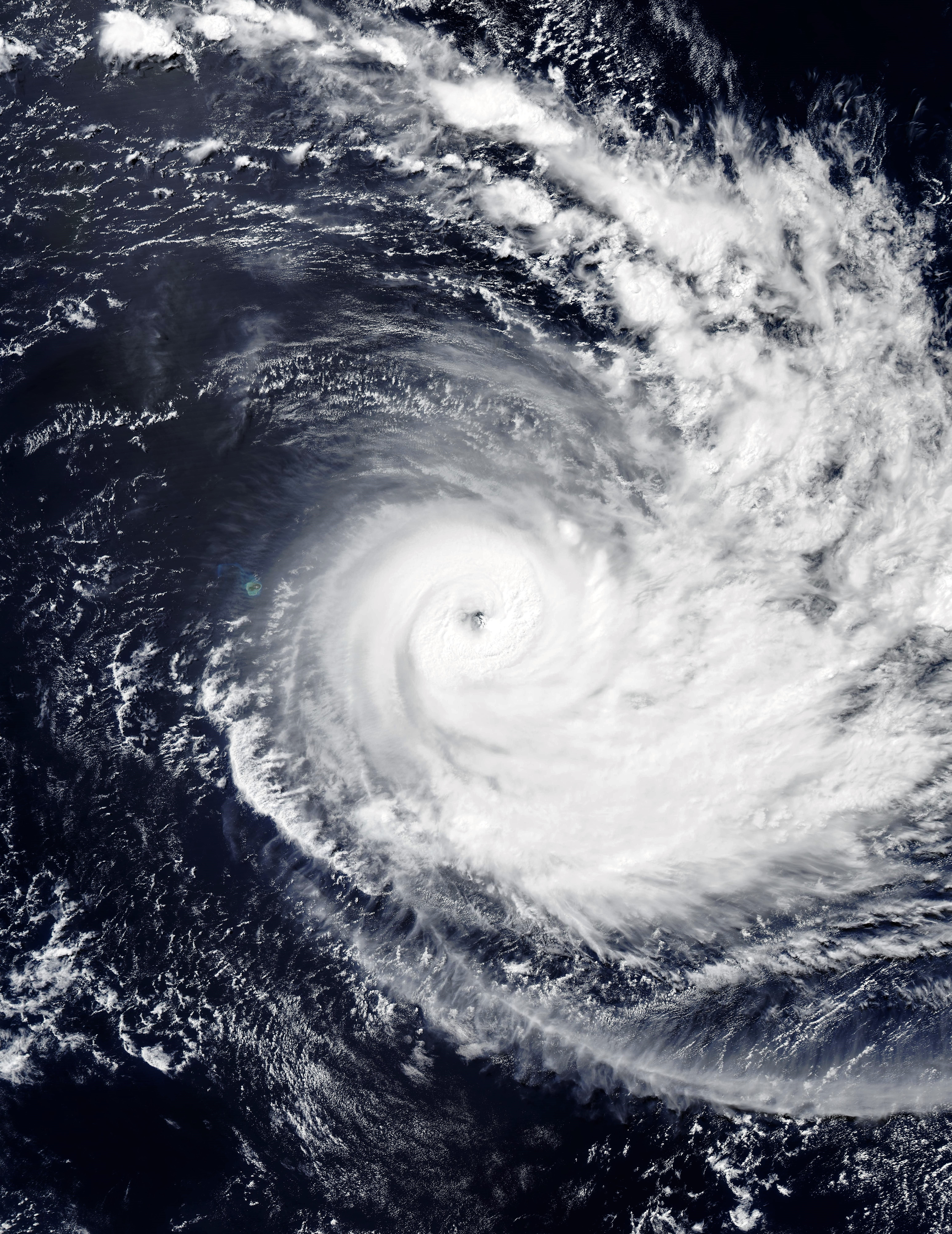 Intense Tropical Cyclone Joaninha over the south-western Indian Ocean on 27 March 2019, approximately 330 km east of the Mauritian island of Rodrigues (visible as the small green dot on the left of the cyclone). At the time the image was captured, the cyclone was just below peak intensity, with a ten-minute sustained wind speed of 175 km/h (110 mph), and a one-minute sustained wind speed of 205 km/h (125 mph).